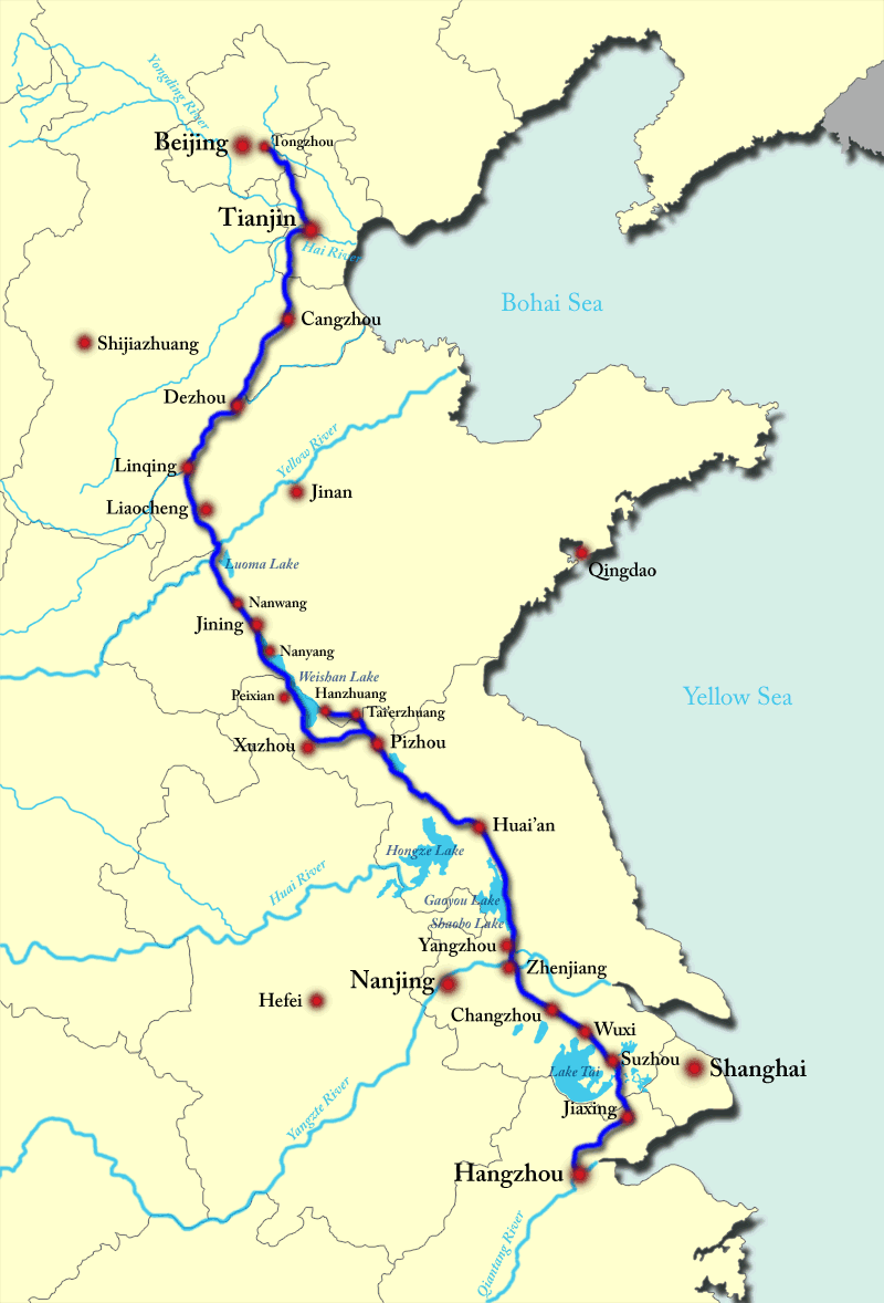 Depiction of the modern course of the Grand Canal of China. Selected rivers and lakes shown includes Yellow, Yangtze, Yongding, Hai, Jiya, Wei, Huai, Qiantang, Luoma, Weishan, Hongze, Shaobo, Gaoyou, and Tai.